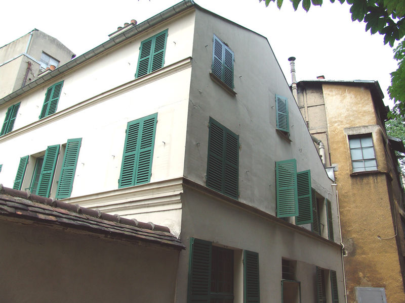 Home of Honoré de Balzac. Of the many houses where he lived, this is the only one still standing. Located at: 47, rue Raynouard , 75016 Paris, France. This picture is from the Rue Berton alley side. Photograph © P. Alejandro Díaz, en:25 June en:2005.